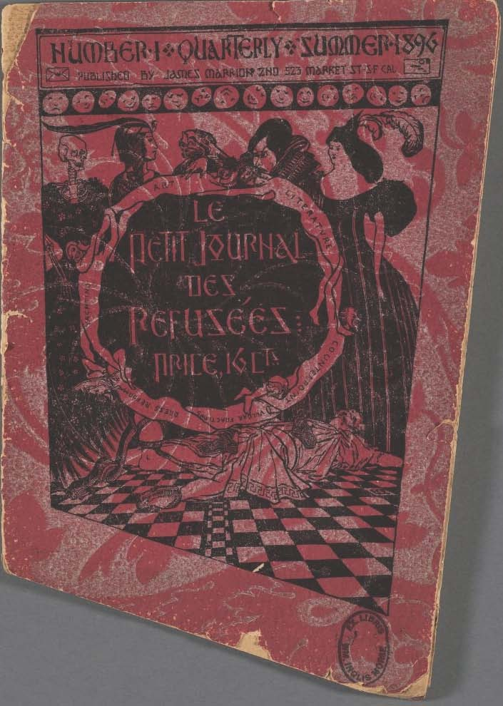 Full color digital facsimiles from Houghton Library, Harvard University. Le Petit journal des refusées. San Francisco, Calif. : Published by James Marrion, 1896. AC9 B9125 896pb (A) AC9 B9125 896pb (B)